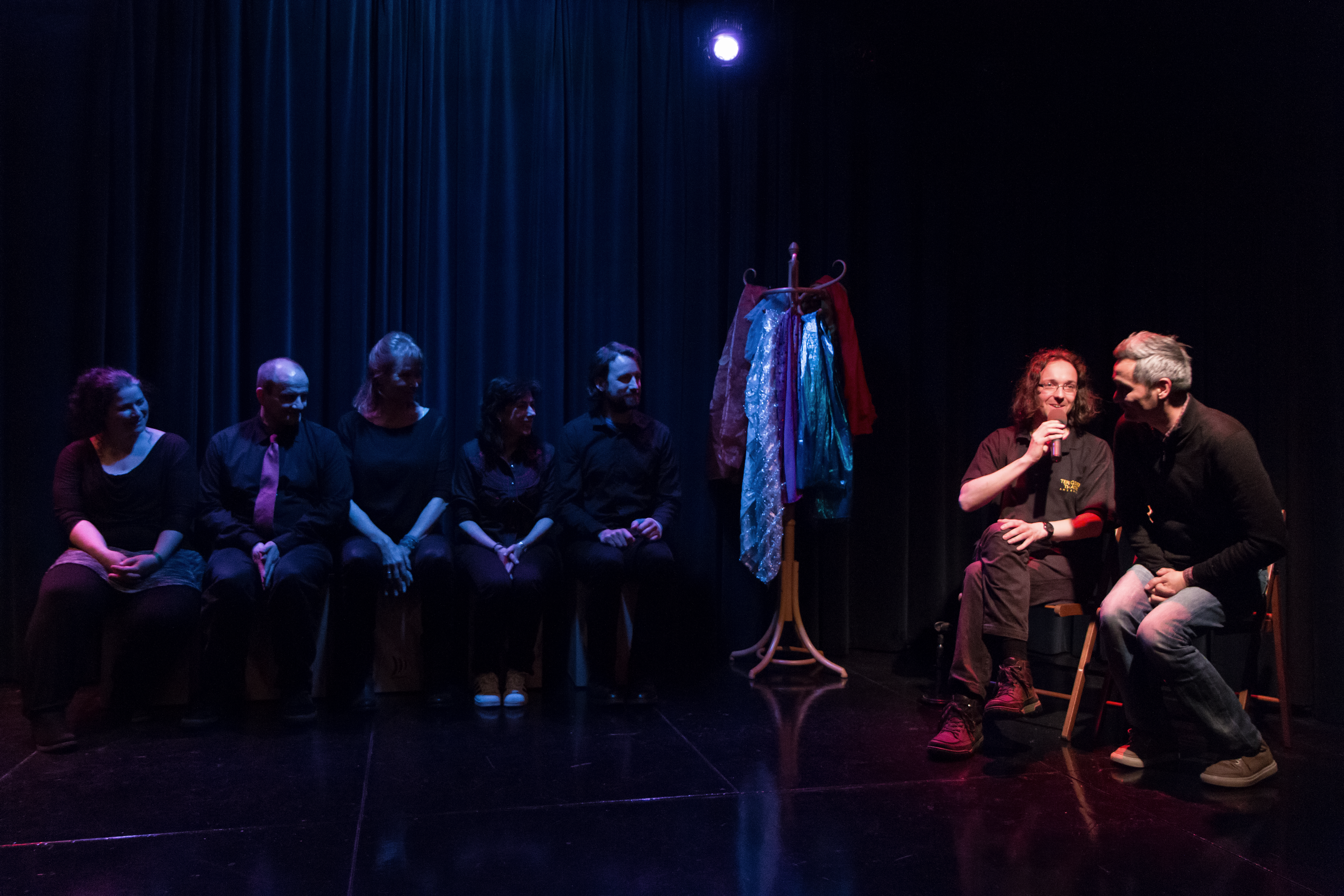 Alle aandacht - (David van den Bosch + verteller) Terugspeeltheater (Playback Theatre) Amsterdam improvises scènes based on stories shared by the audience. Actors and musicians put a theme in a different perspective with humor and imagination. Abstract themes are visualised in concrete scenes. TTA asks, stimulates and makes unspoken feeling that live among the public tangible. Playbacktheatre clarifies and connects. More information?